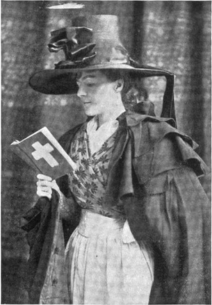 Theatrical People Talked About